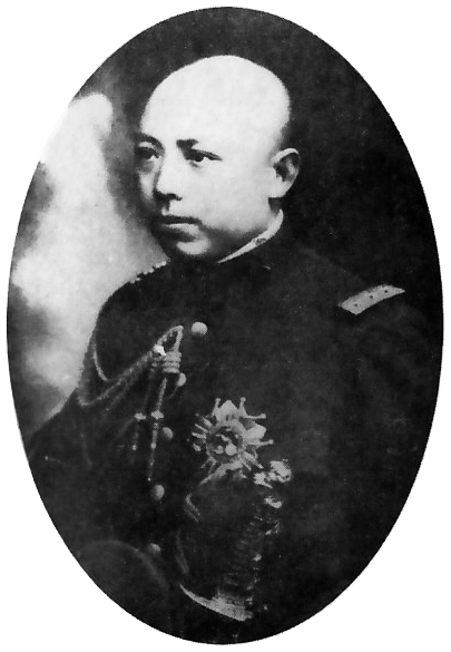 Tang Jiyao(1883 - 1927)